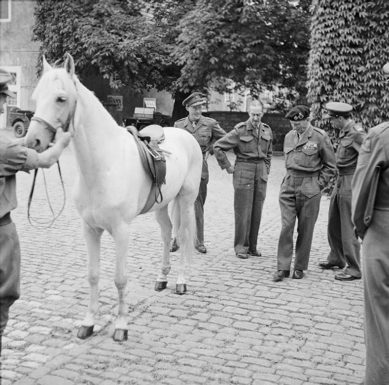 Field Marshal the Viscount Montgomery of Alamein Kg Gcb Dso 1887-1976 16 Jan. 1947: Field Marshal Montgomery inspects a horse which had been the favourite of his old adversary Field Marshal Erwin Rommel in Holland. Also in the photograph is Prince Bernhard of Holland, who had just decorated Montgomery with the Royal Order of the Lion of the Netherlands.